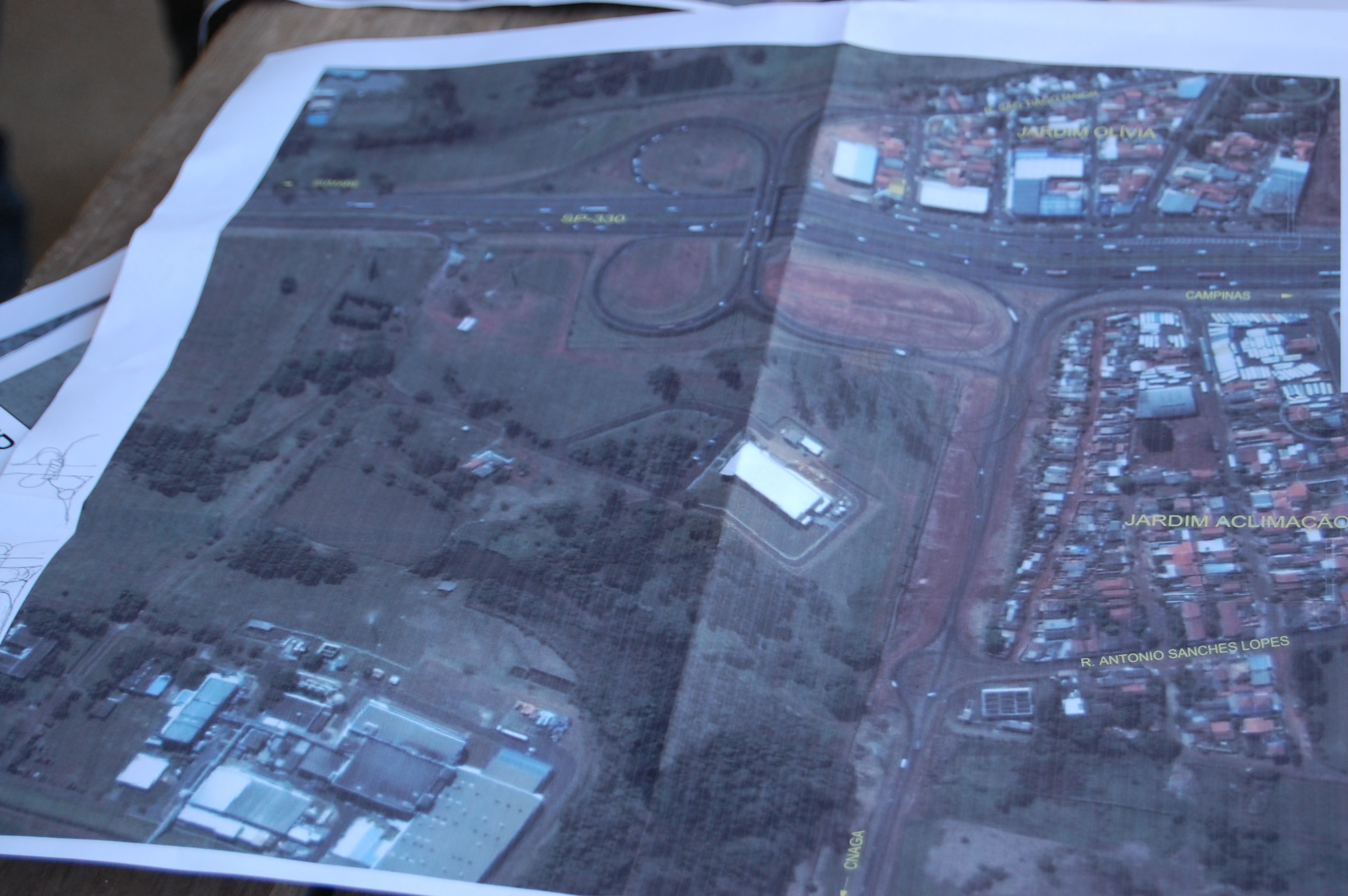 Project of bridge between Hortolândia and Sumaré, São Paulo, Brazil.